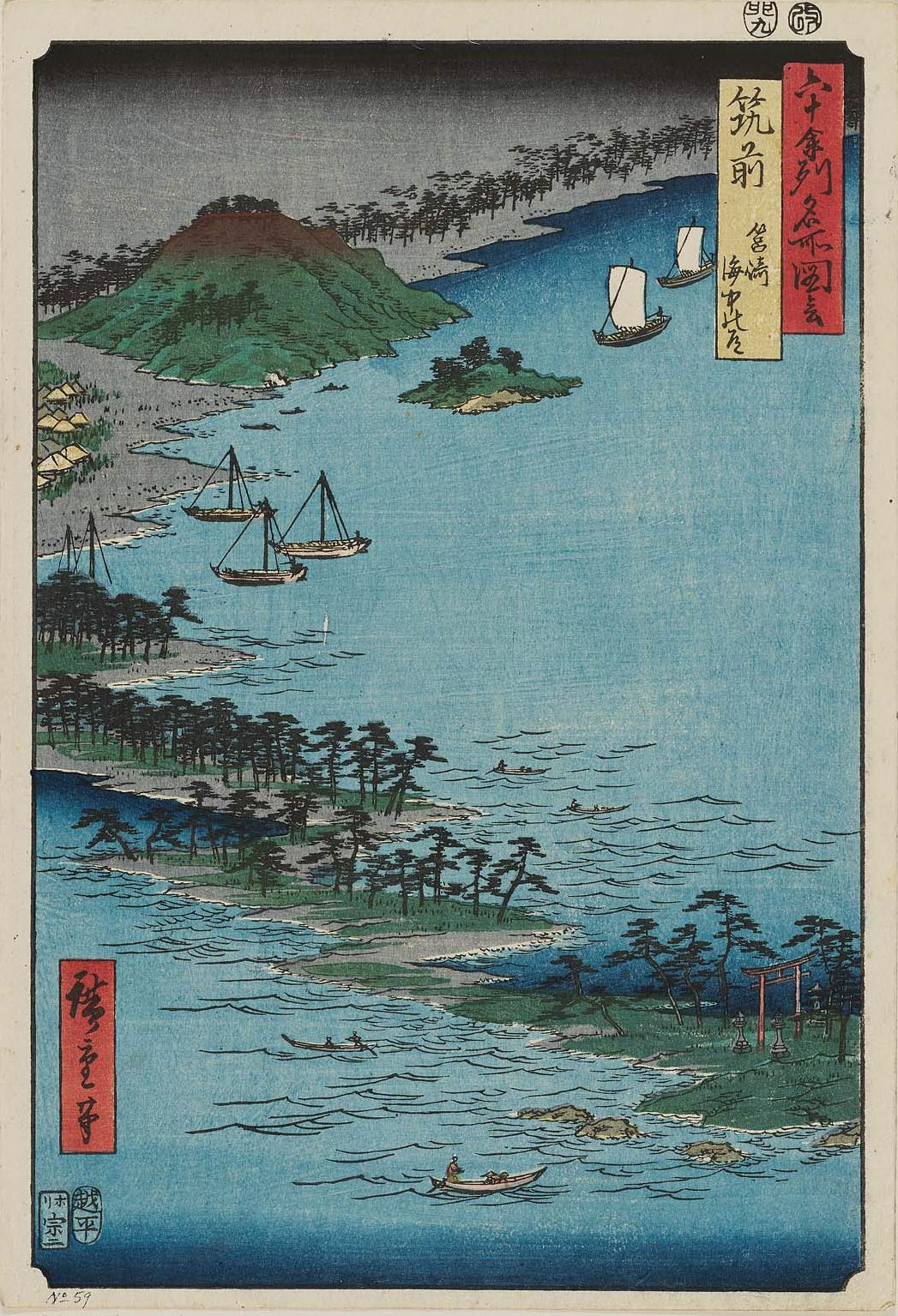 Part of the series Famous Places in the Sixty-odd Provinces, No. 59 (Saikaidō group)